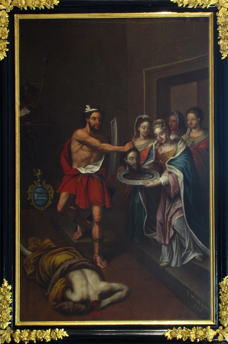 La Décollation de saint Jean Baptiste (où l’on peut lire : « F. H. inv et pinx. »), datée de 1726, porte l'écu du donateur, le secrétaire municipal Antoine Schaffner